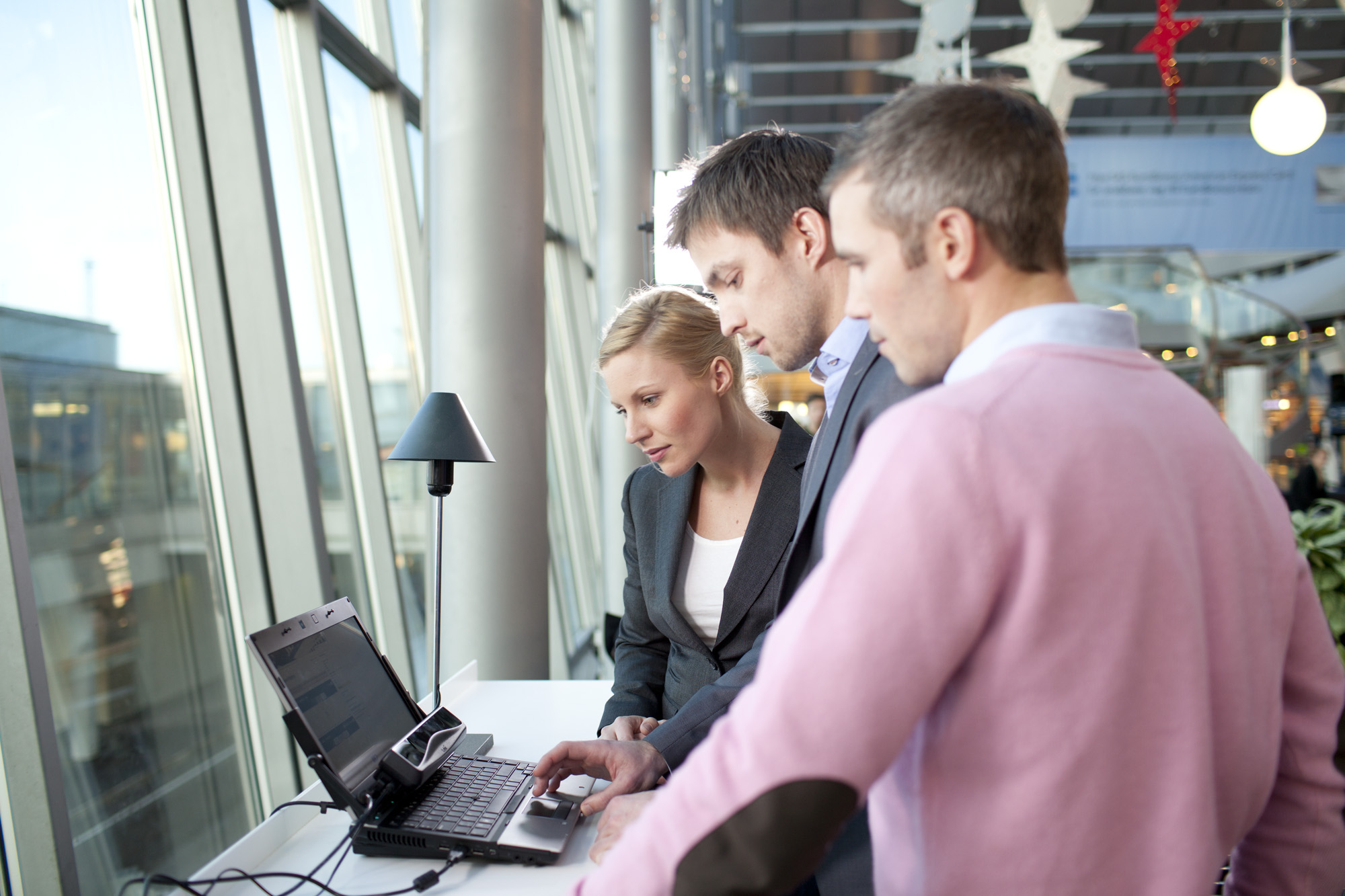 Tobii X1 Light Eye Tracker Laptop